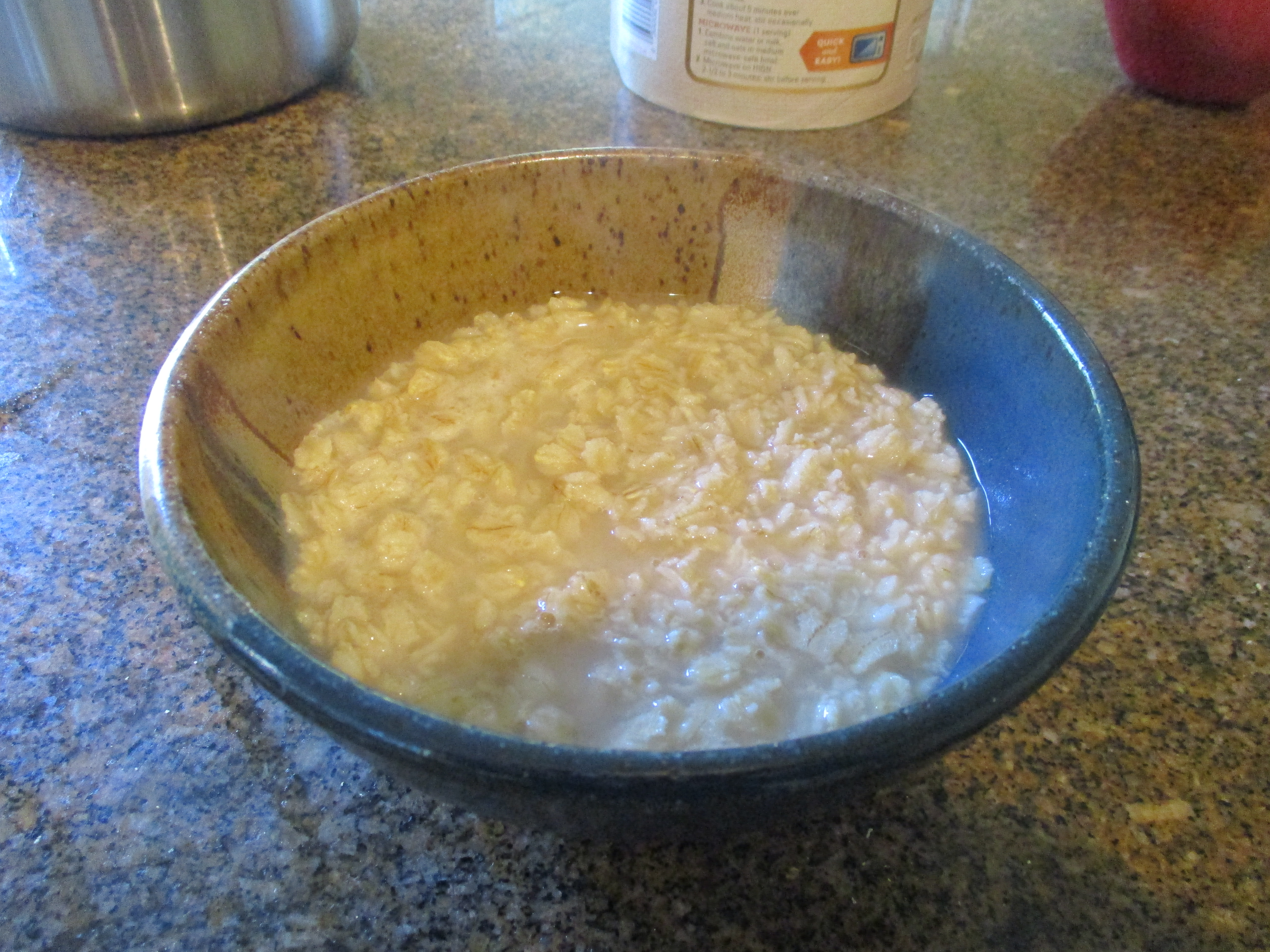 single serving 1/2 cup oats 1 cup water